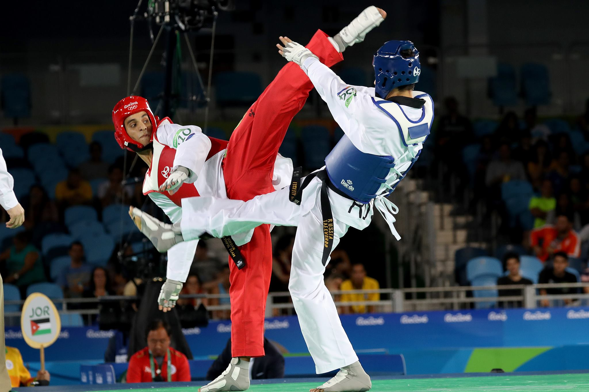 Ahmad Abughaush by Salem Khames the 2016 Summer Olympics in Rio de Janeiro, in the men's 68 kg